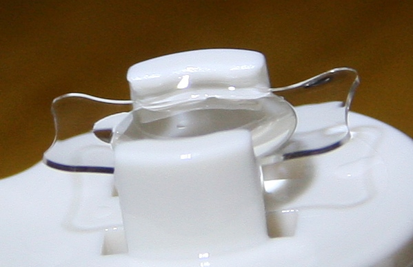 Foldable, acrylic Intraocular Lens (IOL) for Micro Incision Cataract Surgery (MICS) in its holder. Diameter: 11mm, Optical Zone: 6mm (spheric), Refractive Power: +25.0 D (monofocal), Incision size: 1.5mm